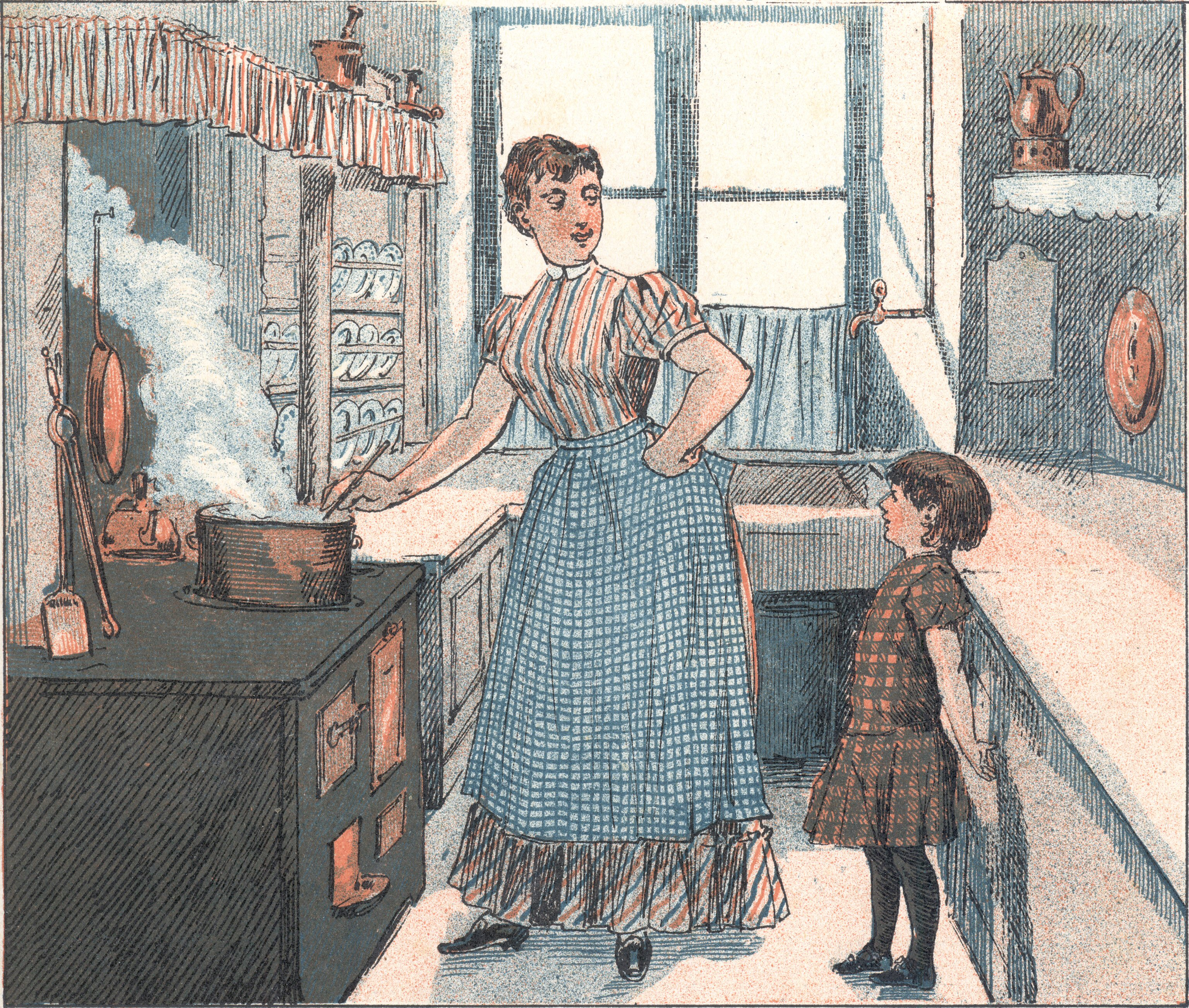 Striking resemblance — Listen, Anne, are you married? — No, my lamb! — It's great, so we are similar: it is I do not!